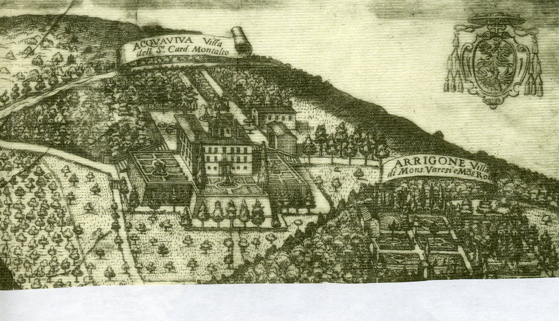 Photo of old print (more 100 years) taken by the author Luiclemens